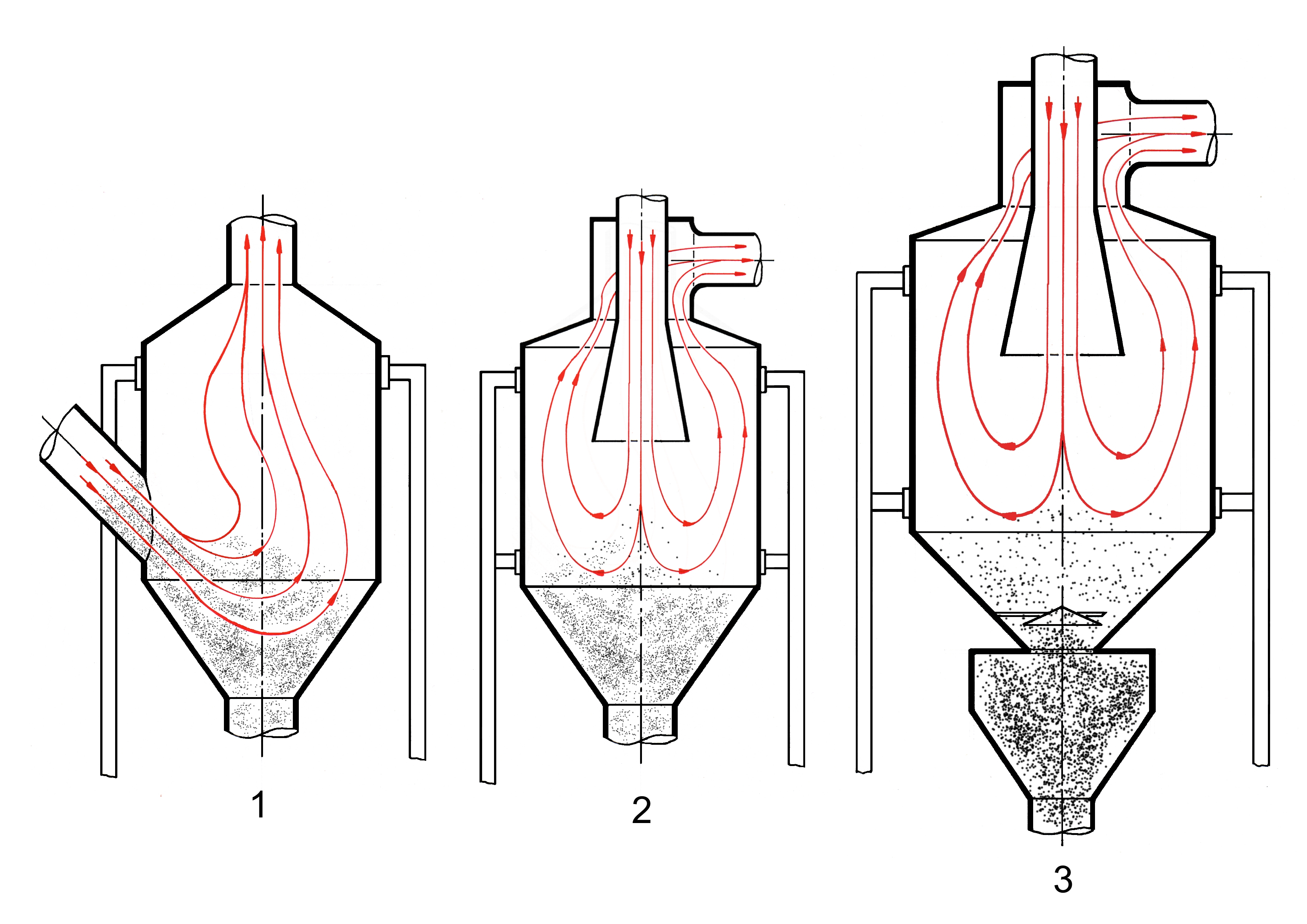 Dust catcher for the first cleaning of the blast furnace gas